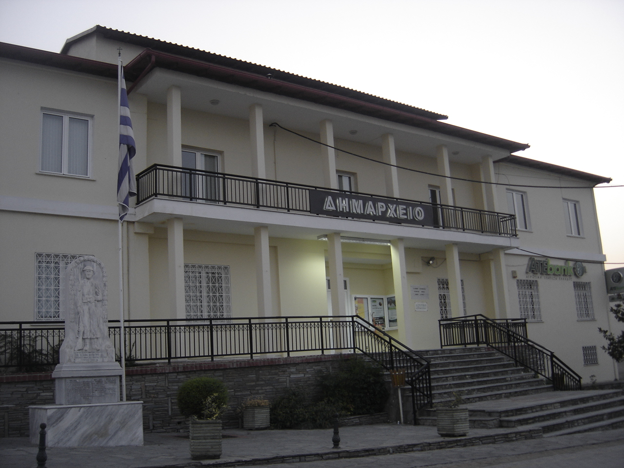 The city hall of Municipality of Eginio.